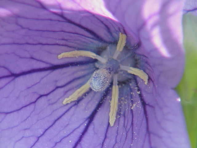 Species: Platycodon grandiflorum Family: Campanulaceae Image No. 1